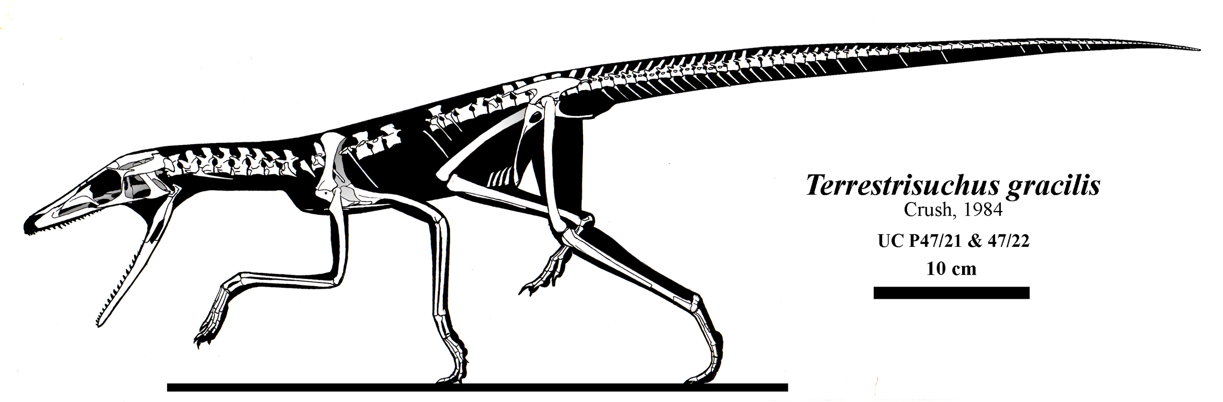 Skeletal reconstruction of Terrestrisuchus gracilis.